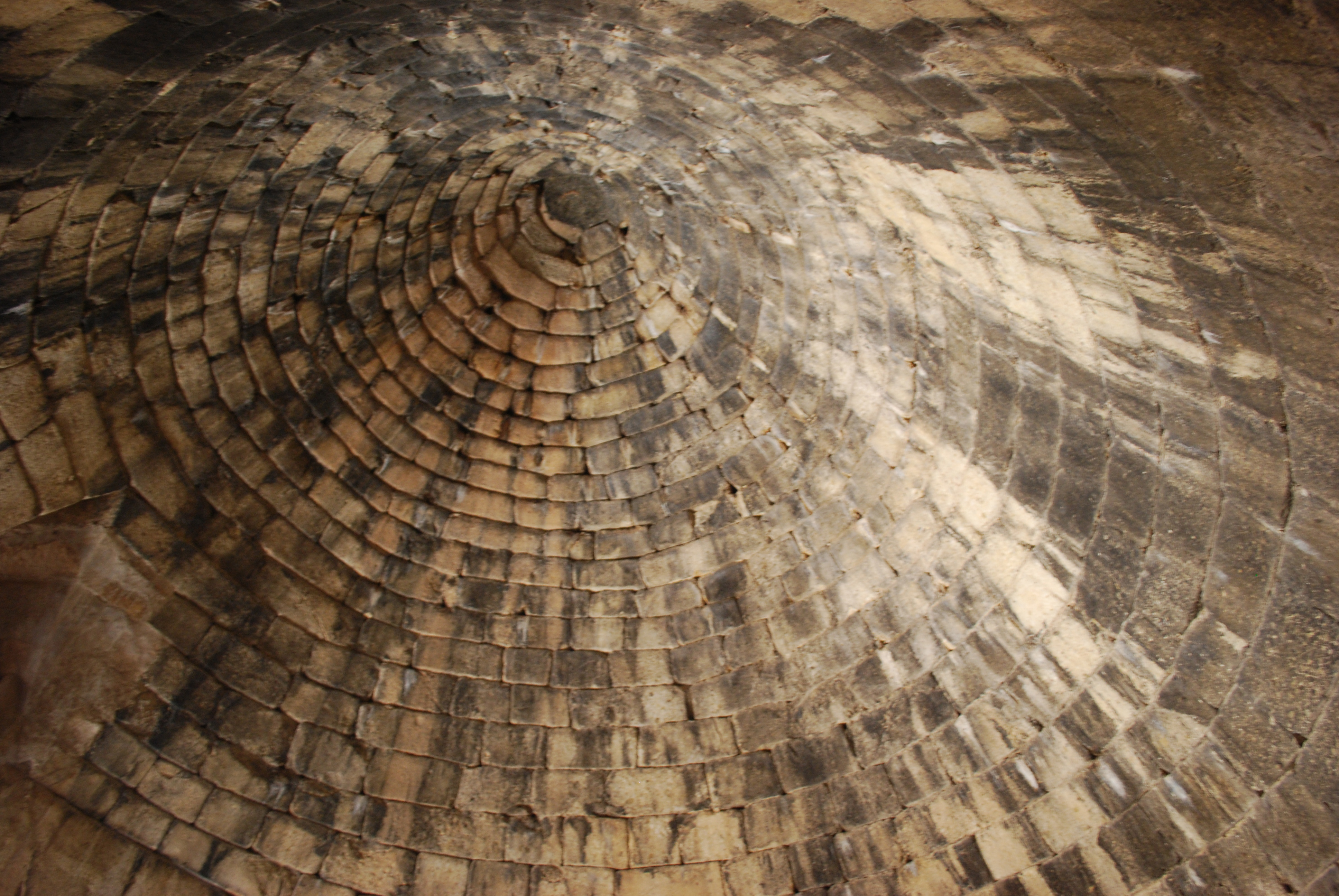 Mycenae : the Treasury of Atreus.